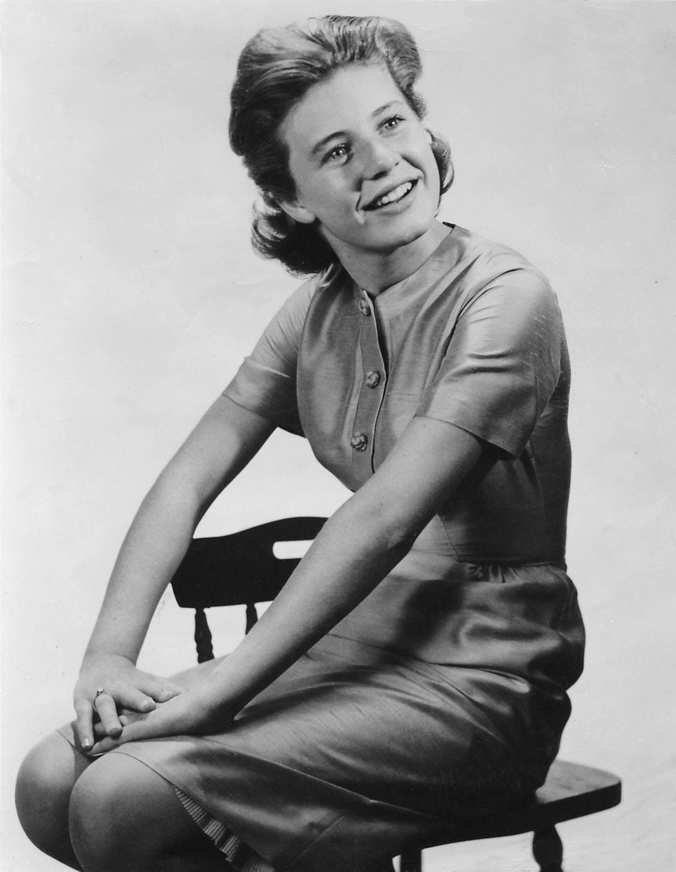 Actress Patty Duke in a publicity photograph for the 1960's show The Patty Duke Show for the premiere episode (The French Teacher) aired September 18, 1963